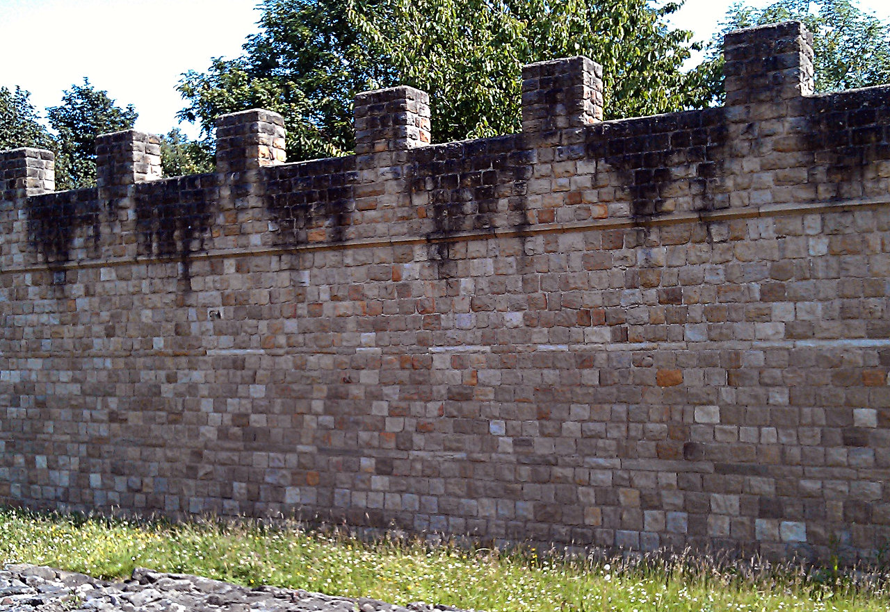 The reconstructed curtain wall just west of at Wallsend fort, with the original Wall in the foreground. Looking SE.